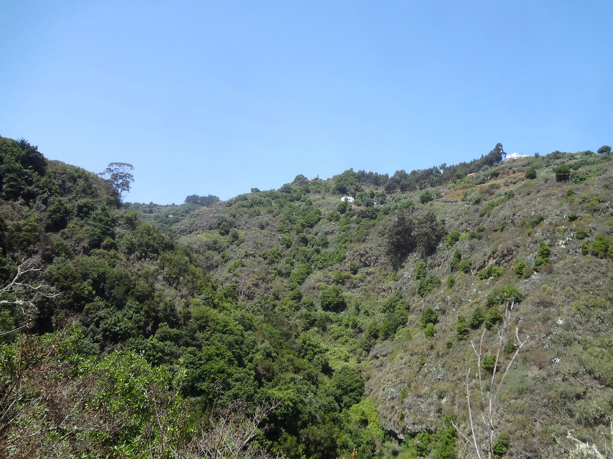 Barranco Oscuro Natural Reservation in Gran Canaria, Canary Islands.